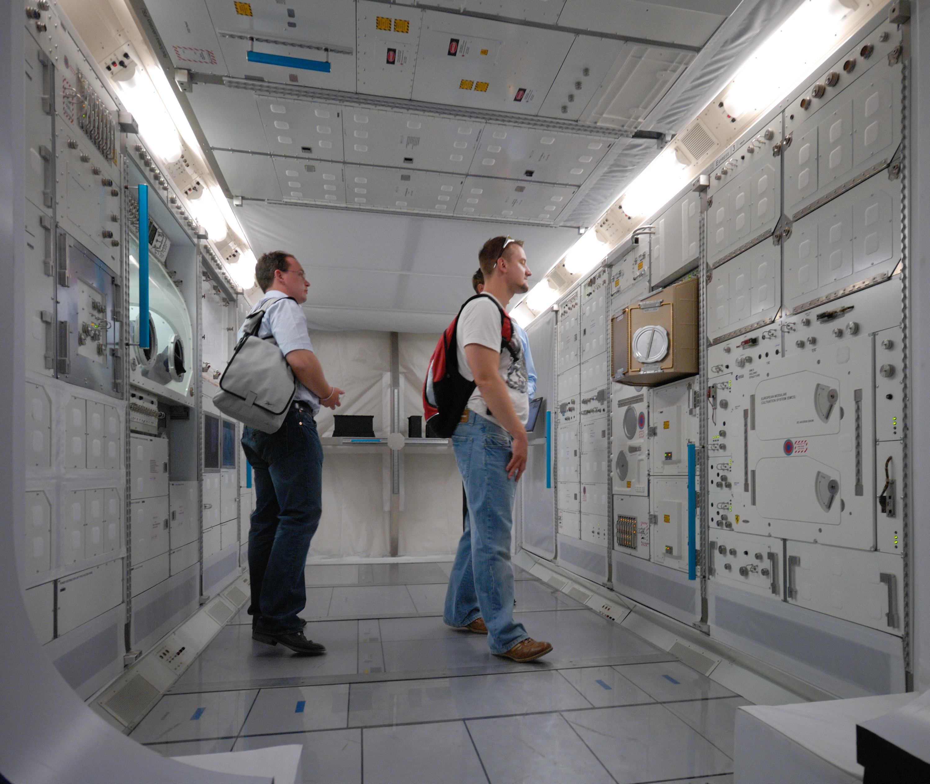 1:1 replica of the European ISS module Columbus on display at the Berlin Air Show (ILA) 2008.